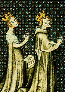 Louis VII of France, with his third wife, Adele of Champagne, shown holding his son.